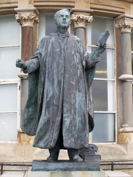 Thomas Charles Edwards (22 September 1837 - 22 March 1900) was a Welsh minister, writer and academic who was the first Principal of the University College of Wales, Aberystwyth. Sculpture unveiled in 1922 in Forecourt of above University. Sculptor was Sir Williams Goscombe John. Darren Wyn Rees at Aberdare Blog